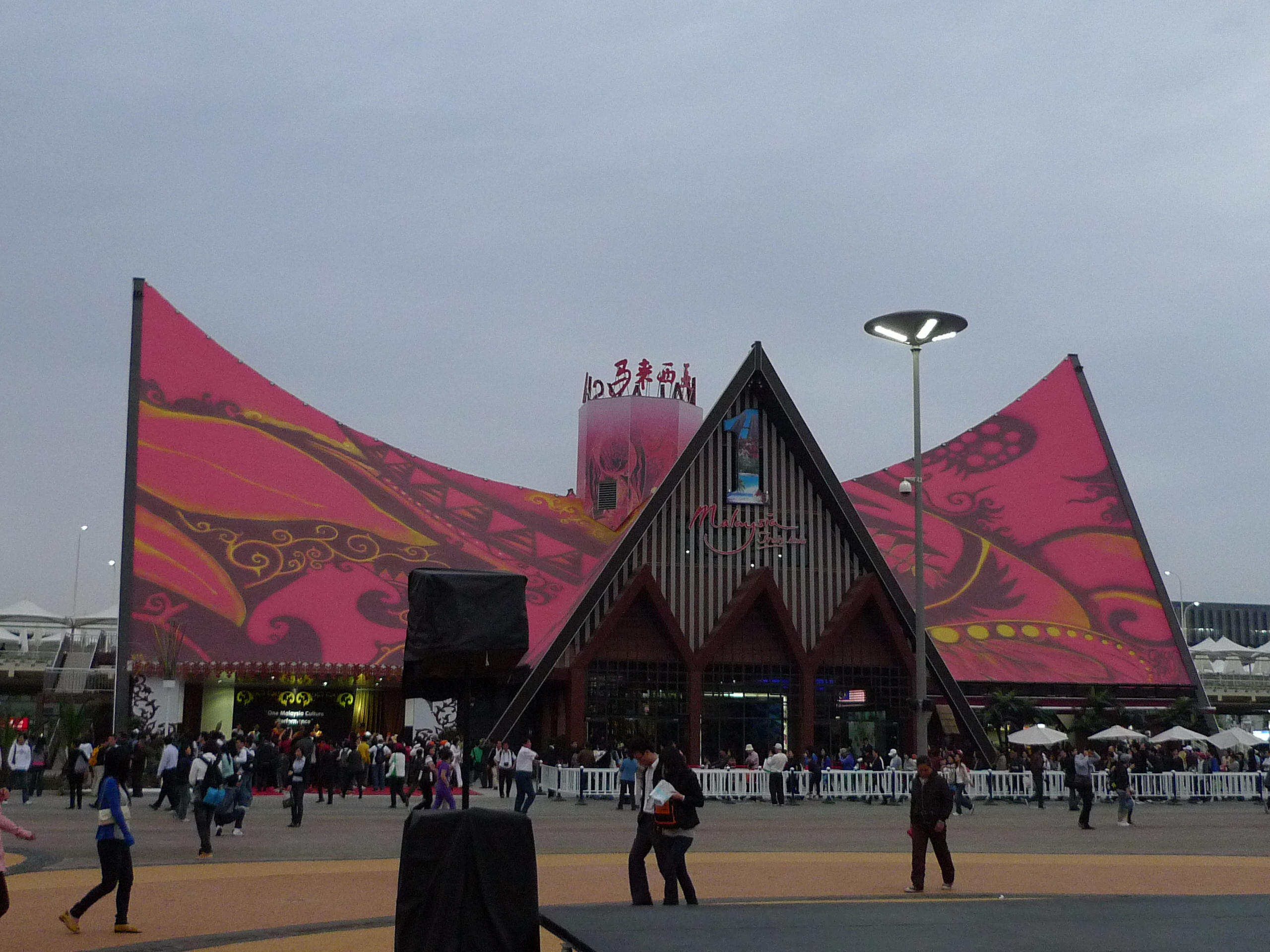 Malaysia Pavilion of Expo 2010